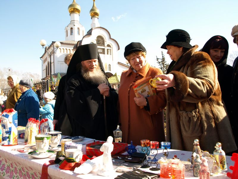 Archbishop Joseph at the fesitval "Great Maslenitsa"